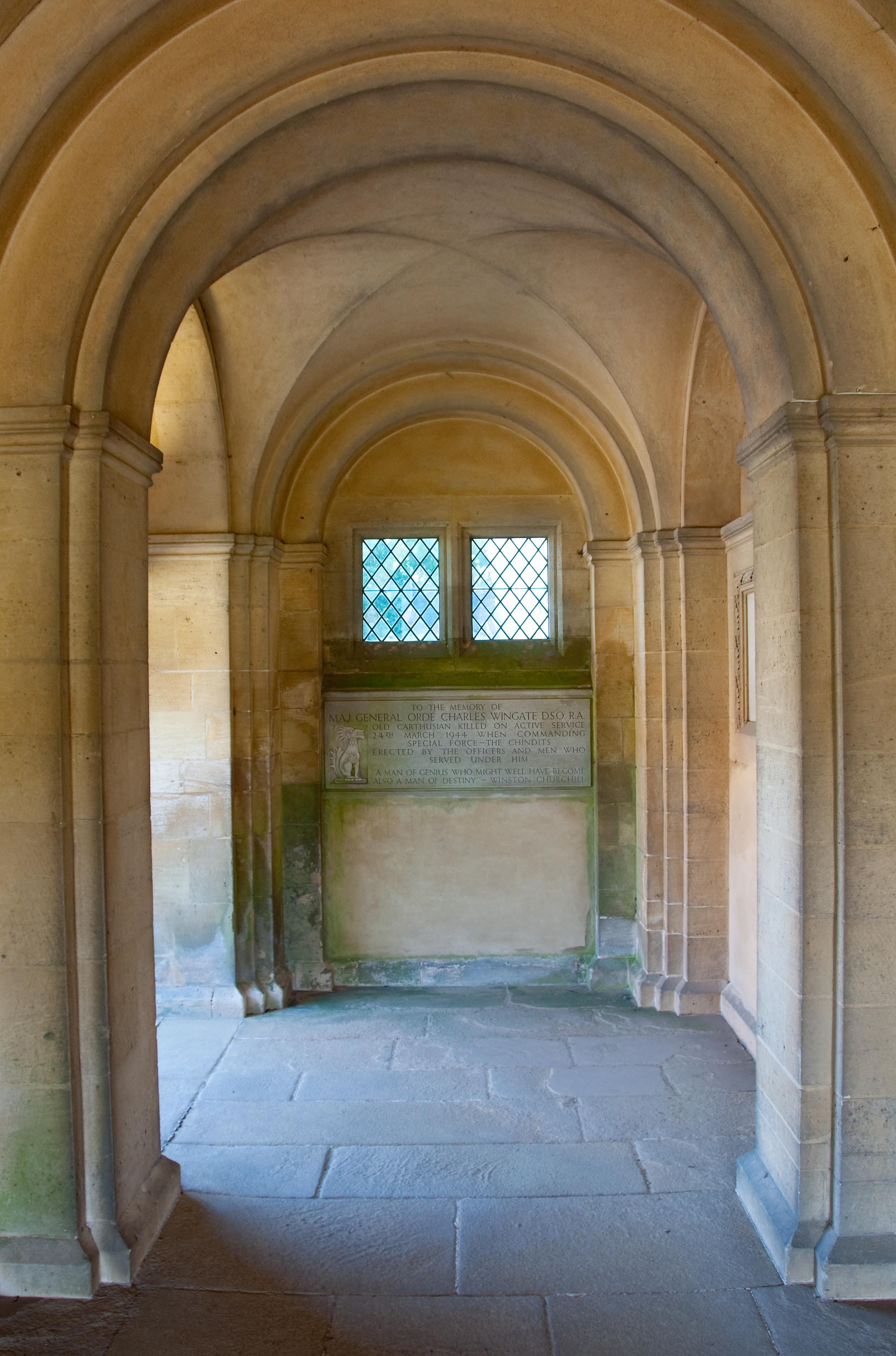 Chapel at Charterhouse School. Inside the Northwest porch wing, looking East Northeast to the Orde Charles Wingate Memorial, under the two windows.